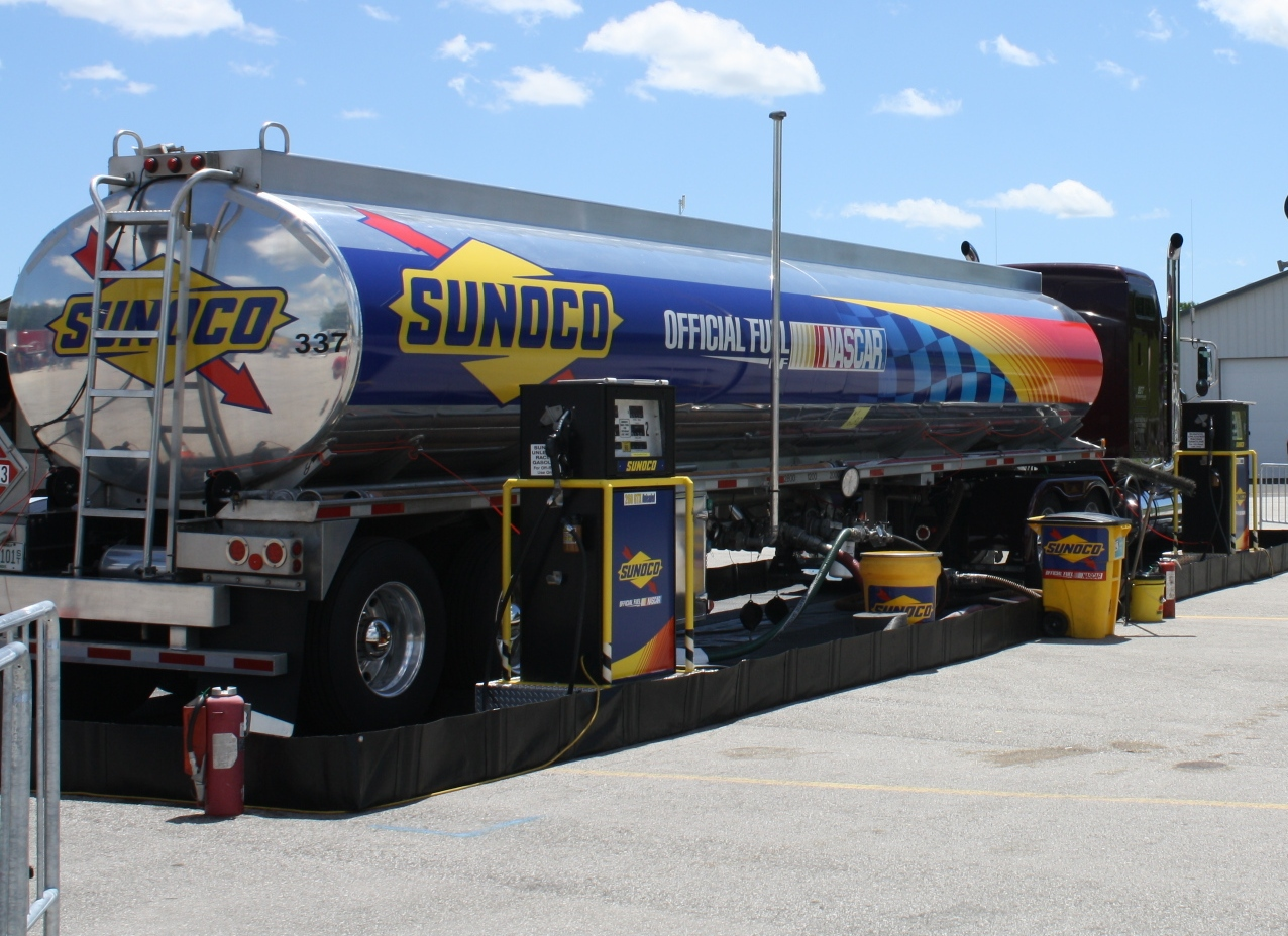 A Sunoco gasoline dispenser semi at a NASCAR Nationwide Series race at Road America.